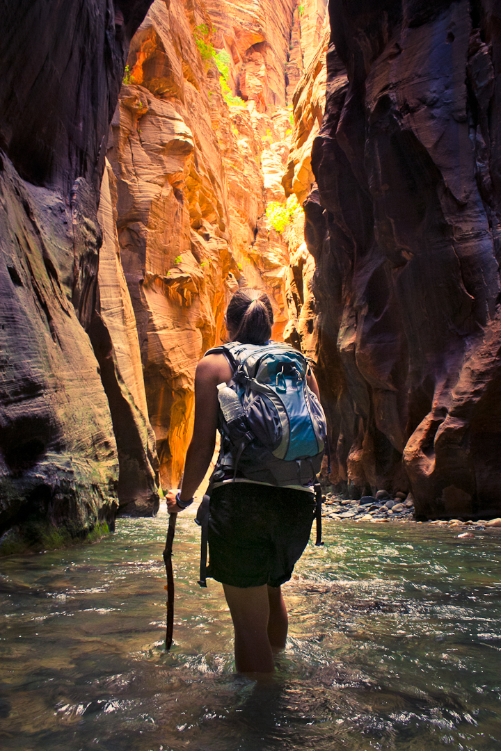 Wading in a canyon